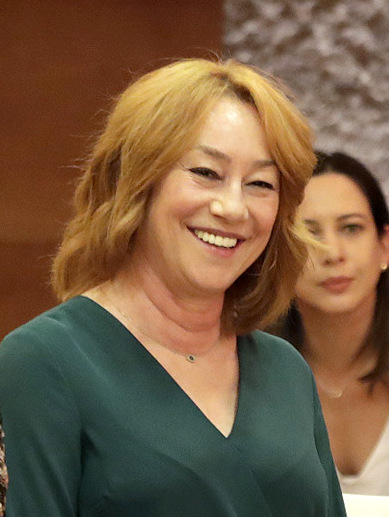 Gracia Querejeta, en la entrega de las ‘Distinciones 8 de Marzo’ de la Comunidad de Madrid con motivo del Día Internacional de la Mujer